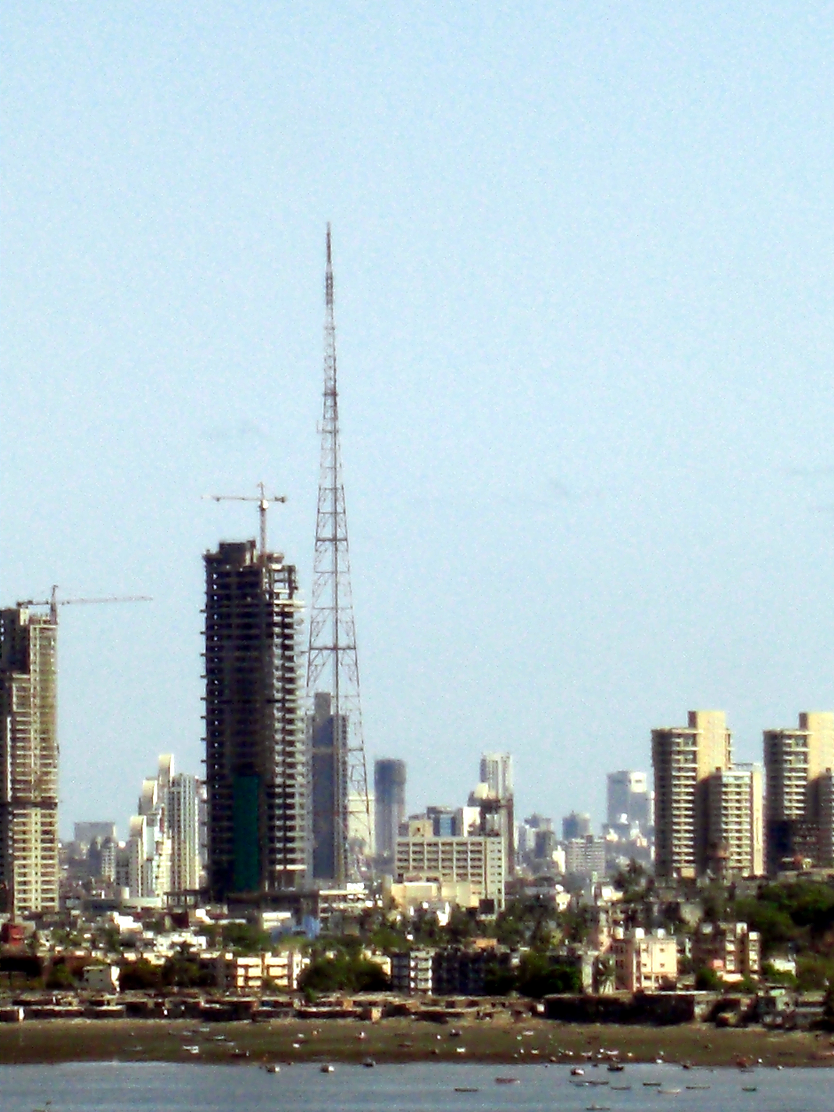 View from Worli from Taj Lands End in Bandra